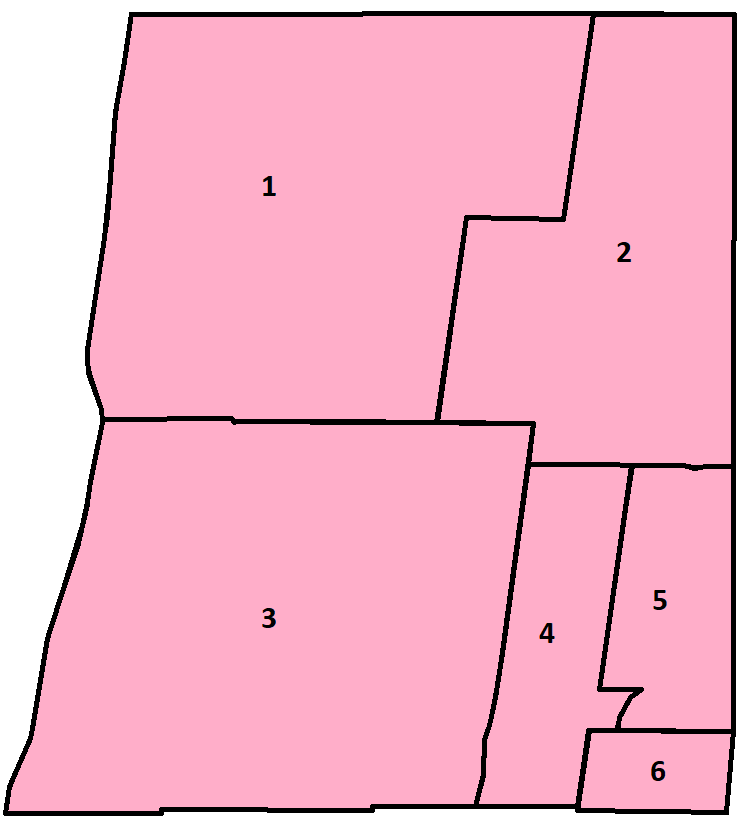 Map of Whitchurch-Stouffville, Ontario's wards